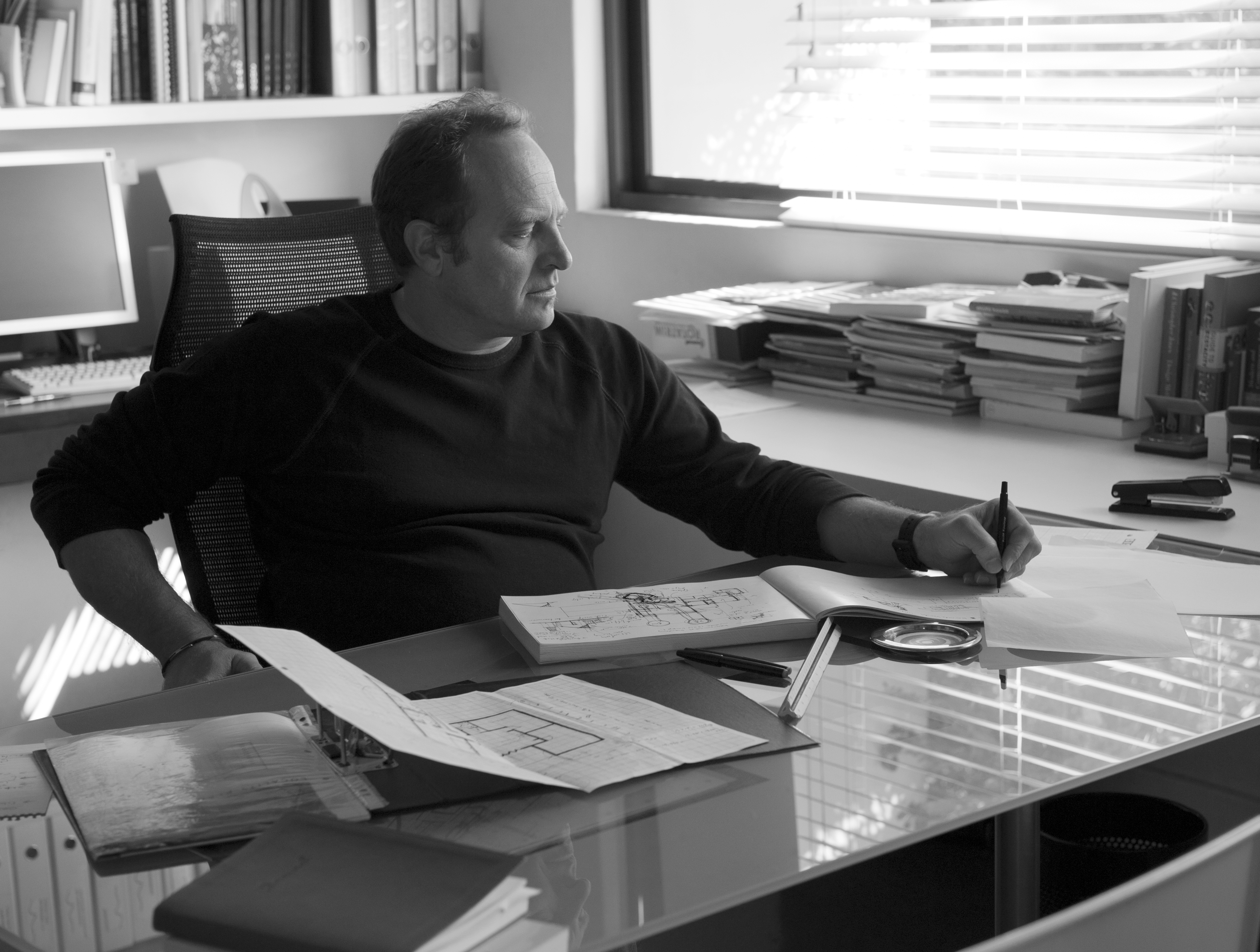 This is a photograph of Pieter J Mathews, South African architect, busy in his Pretoria-based office. Carla Crafford took the photo in 2012.